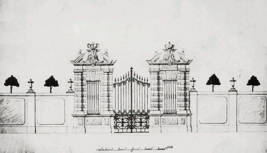 The Iron Gate of the Saxon Garden in Warsaw.